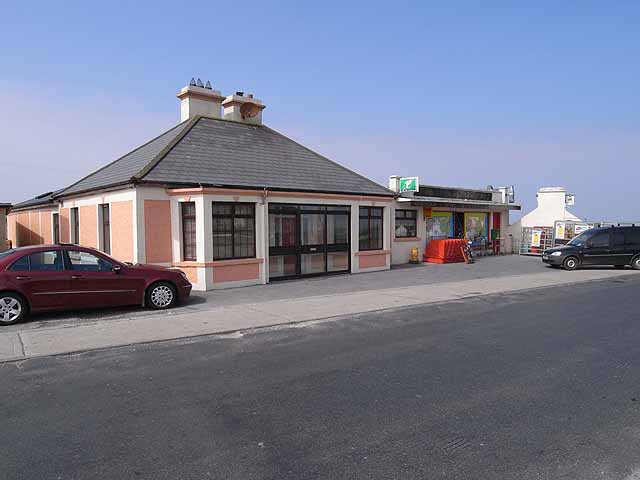 Village shop at Eachleim/Aughleam, near to Aghleam and Clogher, Mayo, Ireland. Standing beside the R313 Belmullet to Blacksod road.